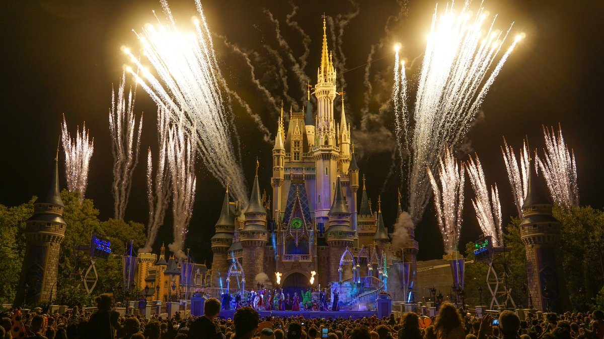 The Hocus Pocus Villain Spelltacular show presented during Mickey's Not-So-Scary Halloween Party at the Magic Kingdom.